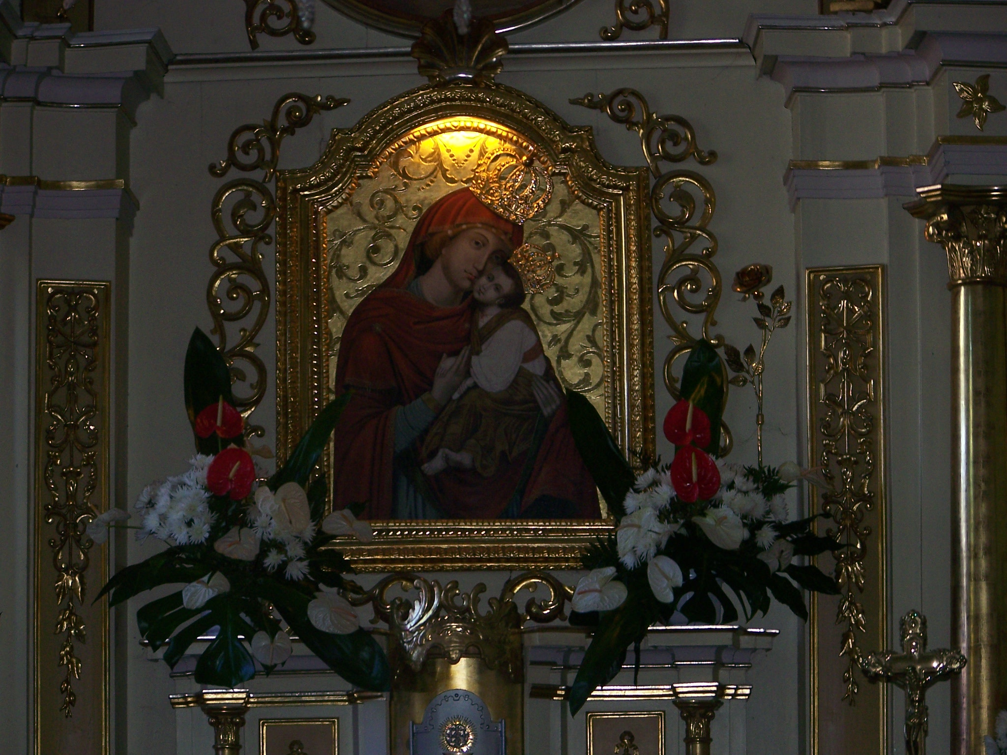 Virgin Mary painting in ex-Greek catholic church in Polańczyk, Poland